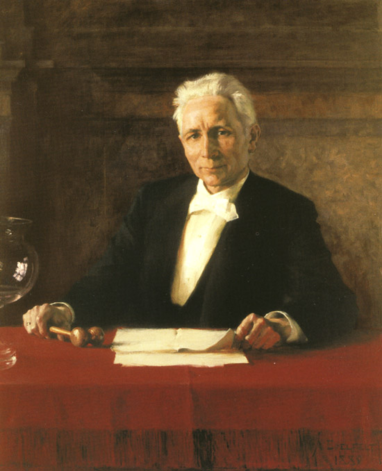 Joachim Kurtén, Speaker of the bourgeois estate in the Diet of Finland. Portrait by Albert Edelfelt 1889.